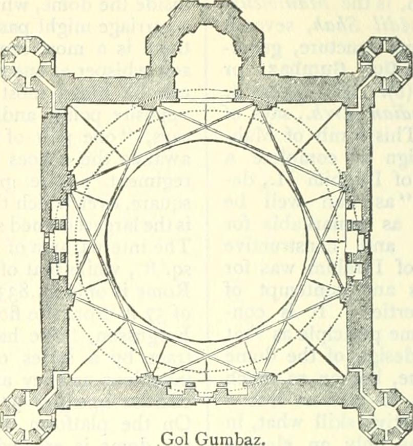 Identifier: handbooktravelle00john Title: A handbook for travellers in India, Burma, and Ceylon . Year: 1911 (1910s) Authors: John Murray (Firm) Subjects: India -- Guidebooks Burma -- Guidebooks Sri Lanka -- Guidebooks Publisher: London : J. Murray Calcutta : Thacker, Spink, & Co. Text Appearing Before Image: t.^ Fromthe gallery outside there is a fine viewover Bijapur. On the E. is Alipur ;on the W. are seen the IbrahimRoza, the Upari Burj, the Sherza,or Lion Bastion, and to the N.W. theunfinished tomb of Ali Adil ShahII., and about i m. towards the N.the ruins of the villages of the masonsand painters employed on the GolGumbaz; and on the S.W. is thedome of the Jama Masjid. There isa small annexe to the mausoleum onthe N., without a roof, built by SultanMuhammad as a tomb, it is supposed,for his mother, Zohra Sahibah, fromwhom one of the suburbs was calledZohrapur. It was never finished oroccupied. Below the dome is the cenotaph ofSultan Muhammad in the centre. 1 The most ingenious and novel part ofthe construction is the mode in which itslateral and outward thrust is counteracted.This was accomplished by forming the pen-dentives so that they not only cut off theangles, but that, as shown in the plan, theirarches intersect one another and form avery considerable mass of masonry perfectly Text Appearing After Image: '